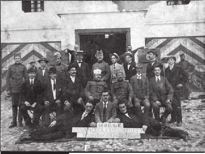 Staff of the Main Medical Warehouse in Niš, 1915